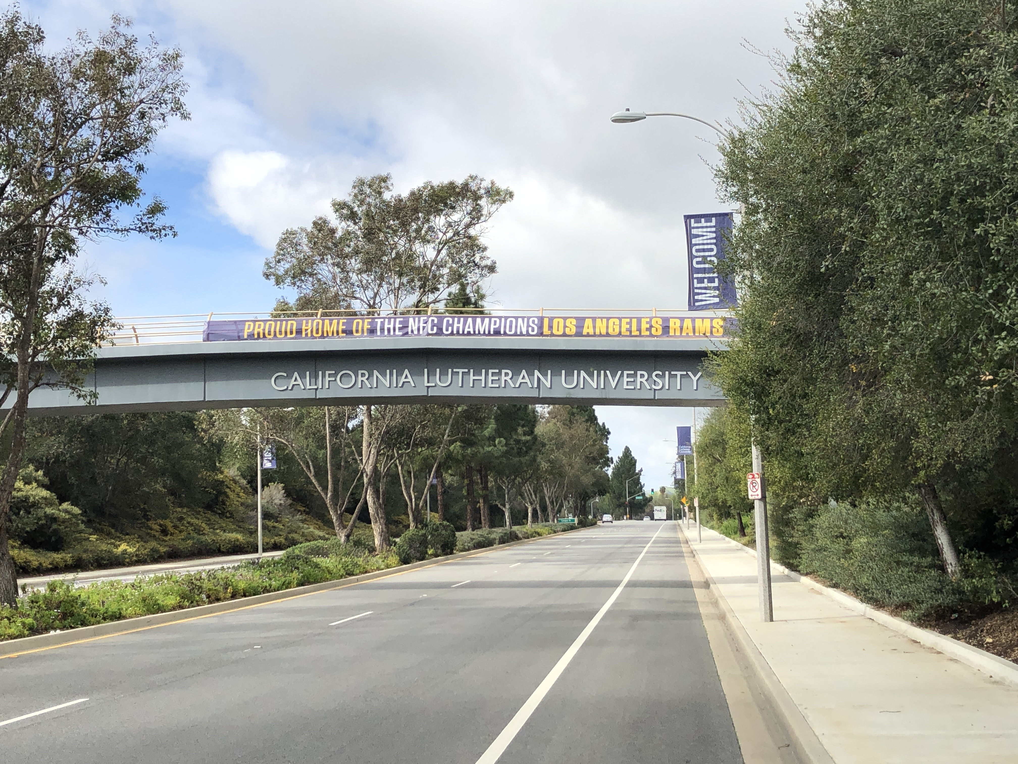 Los Angeles Rams banner at Luedtke Bridge, Cal Lutheran.